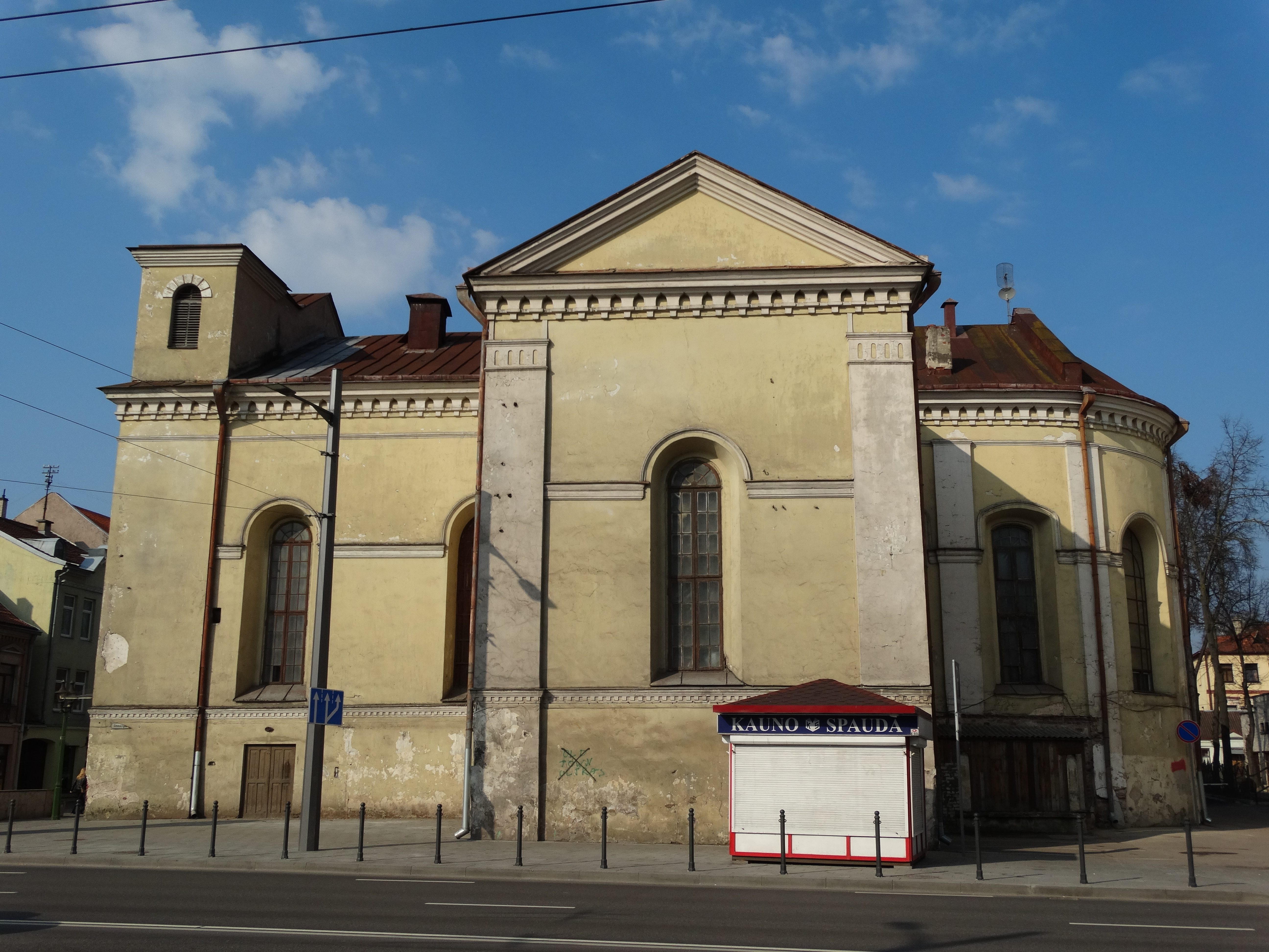 Sacrament church, as seen from Birštono Str., Kaunas, Lithuania